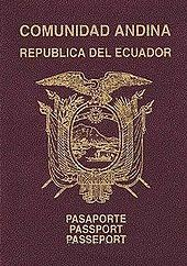 Cover of an Ecuadorian Passport